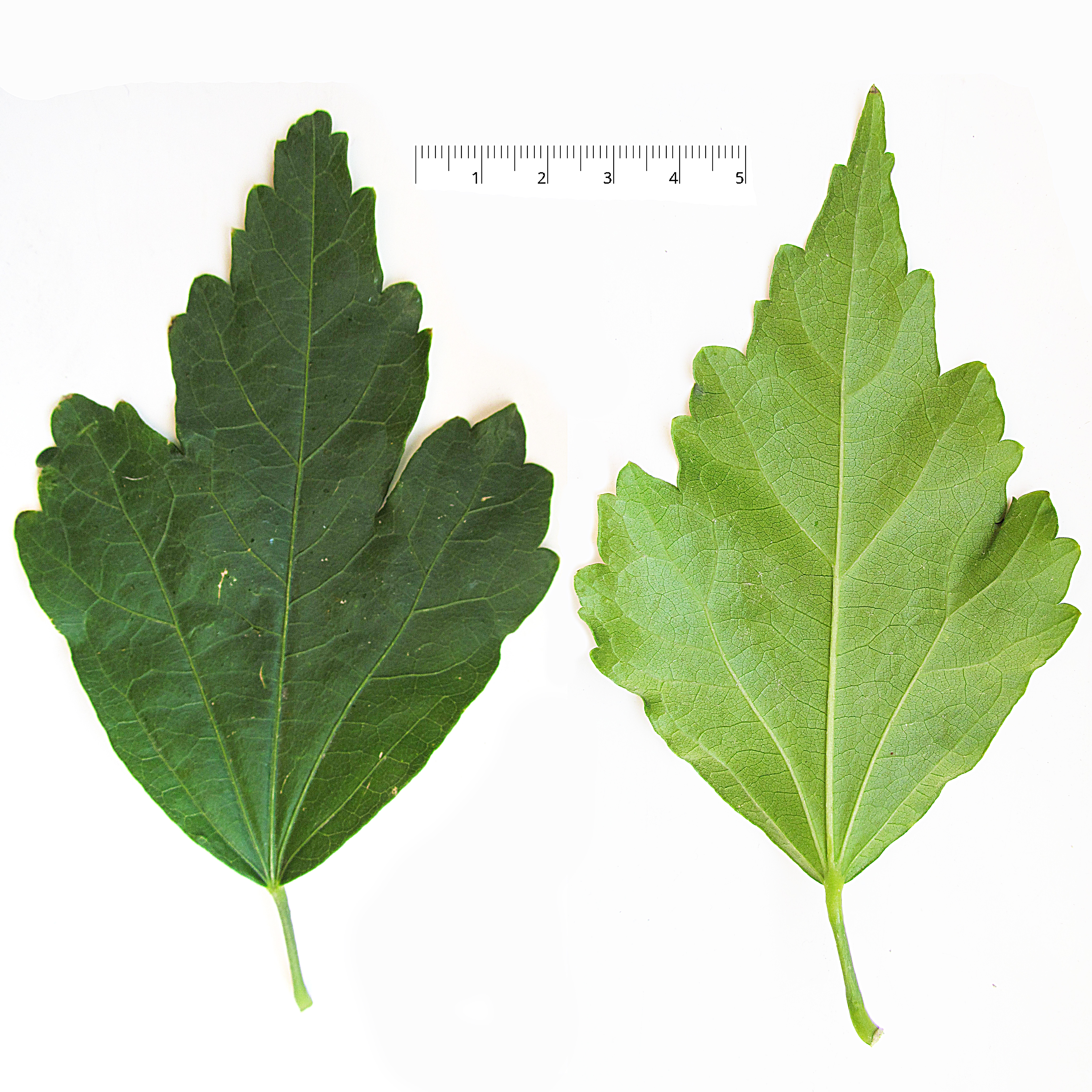 Hibiscus syriacus leaves